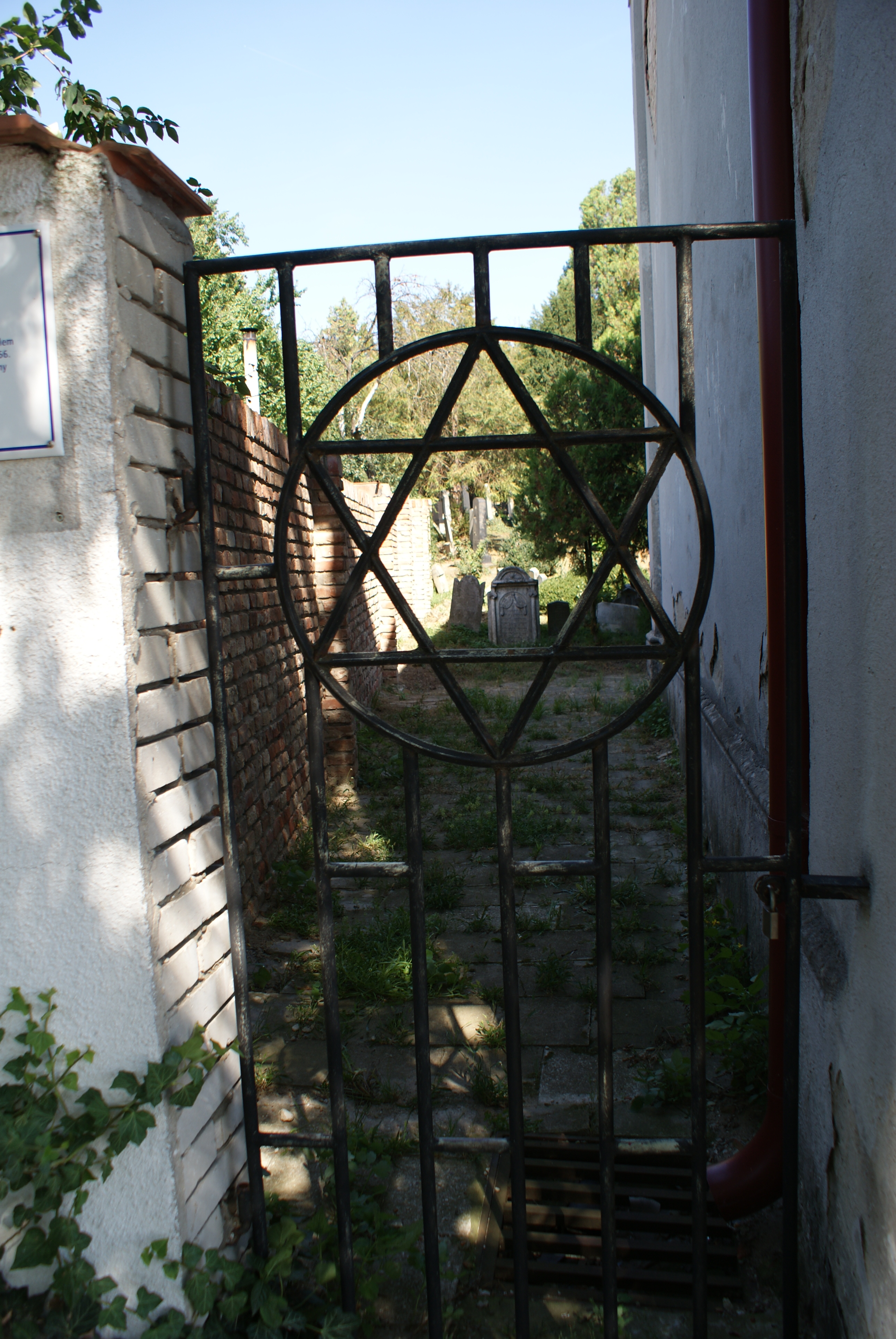 Jewish cemetery in Bzenec, Hodonín district, Czech Republic.